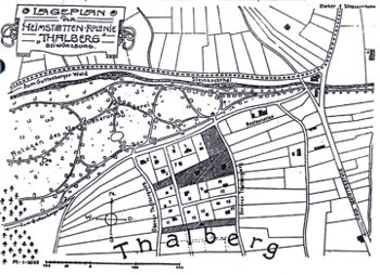 Lageplan Thalberg von Christoph Mayer